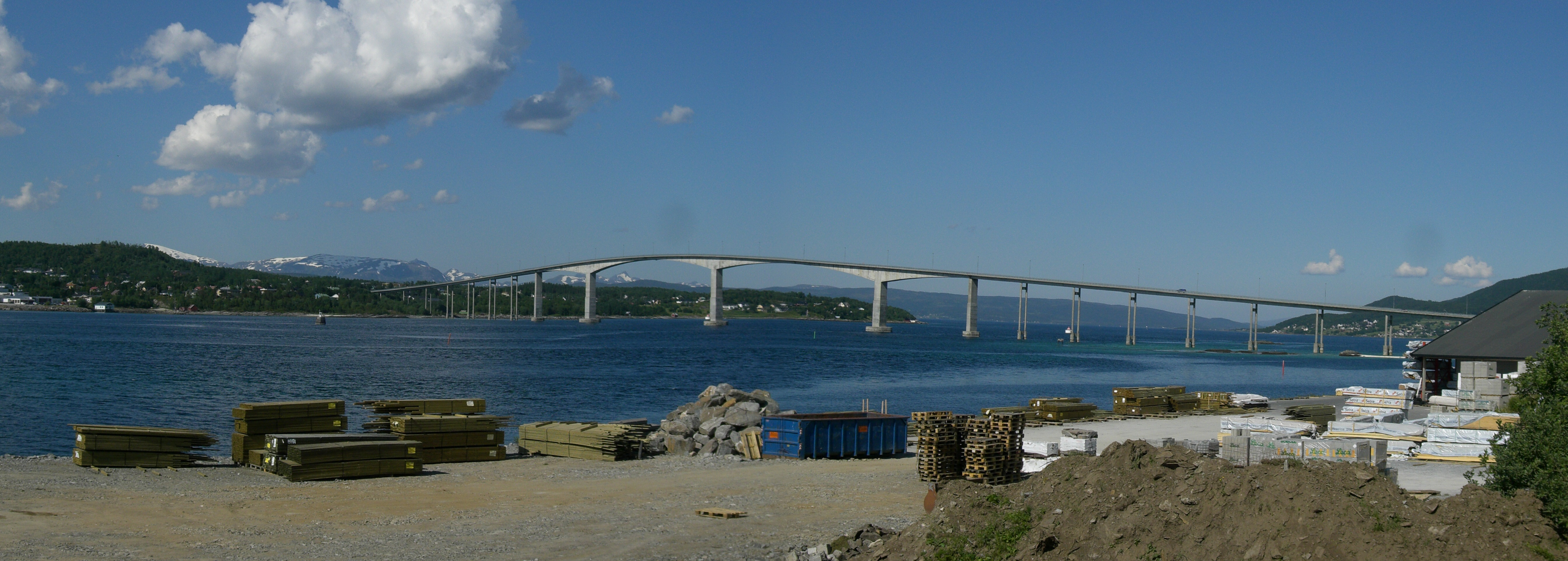 Gisundbrua bridge between Senja and Finnsnes, Lenvik, Norway.